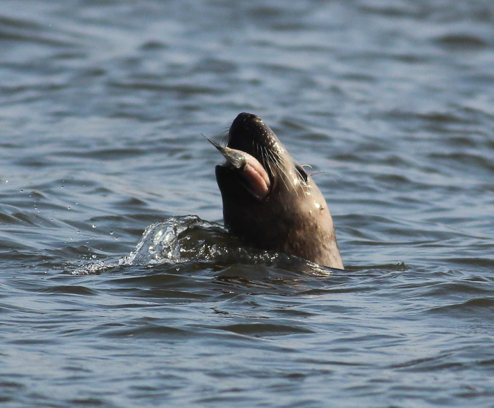 The male of grey seal (Halichoerus grypus) is eating a hunted fish in Przekop (Vistula River, Gdańsk, Poland.)